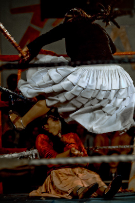 cholia wrestling bolivia el alto